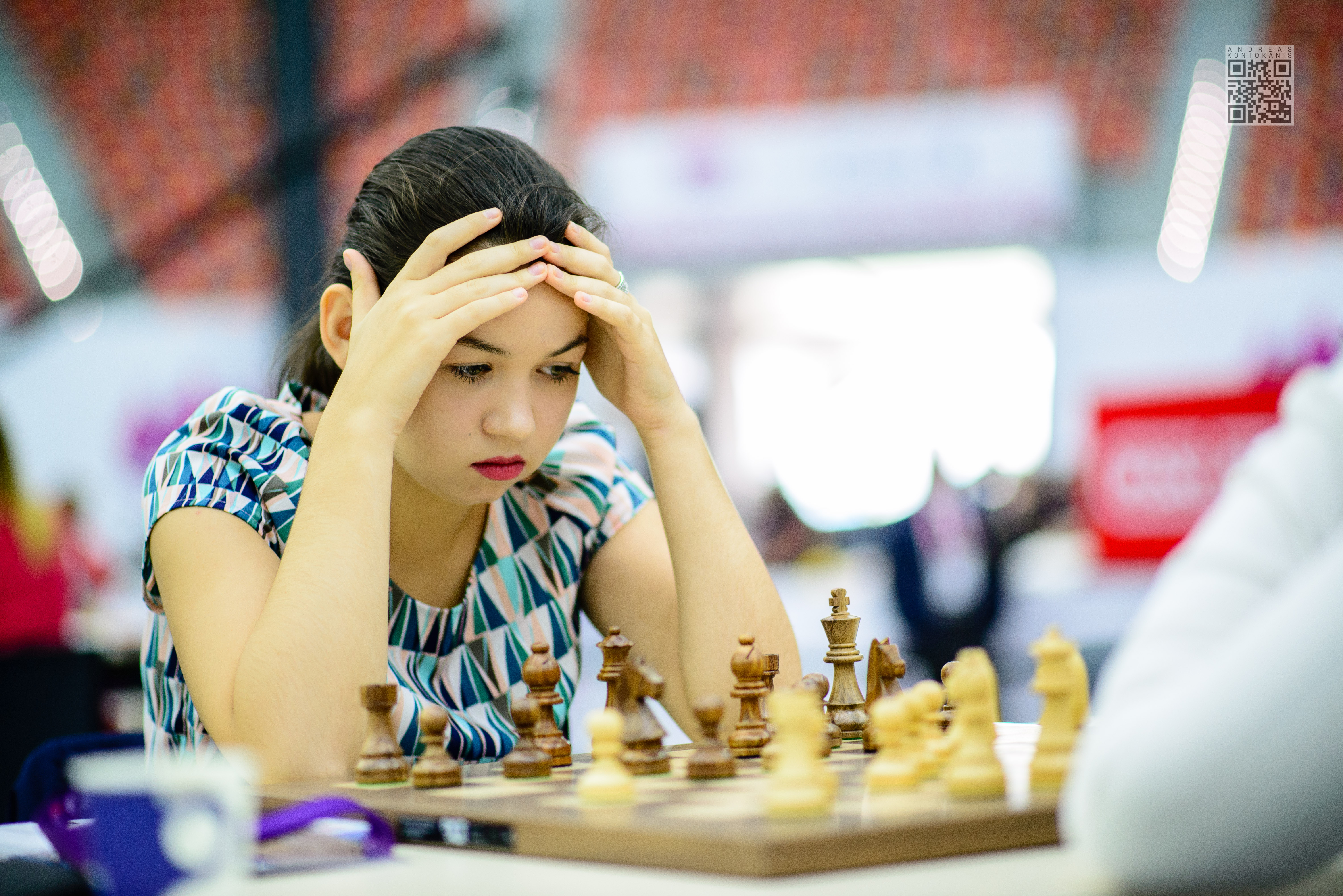 Goryachkina Aleksandra